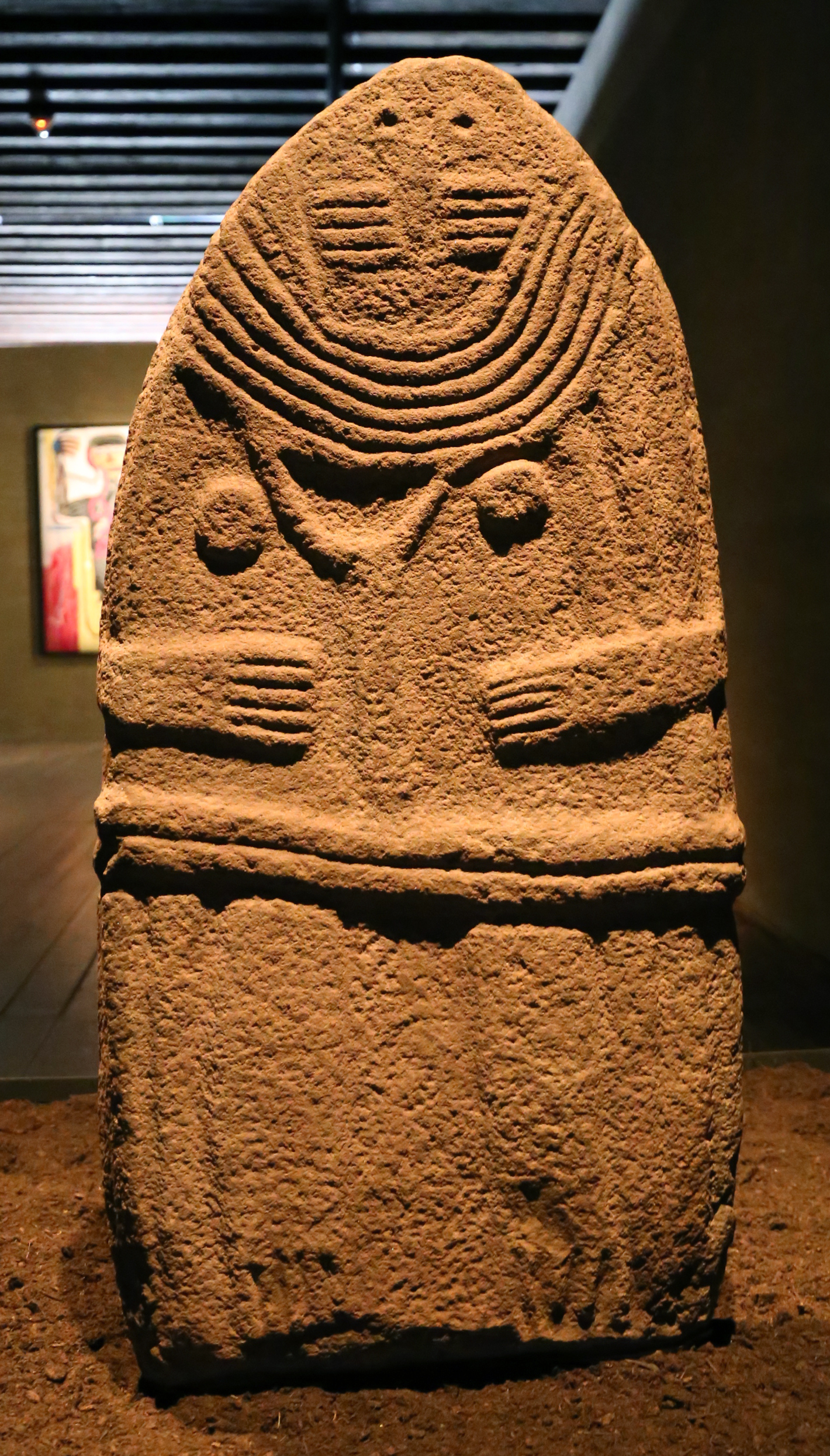 Intuition (Palazzo Fortuny 2017 exhibition)